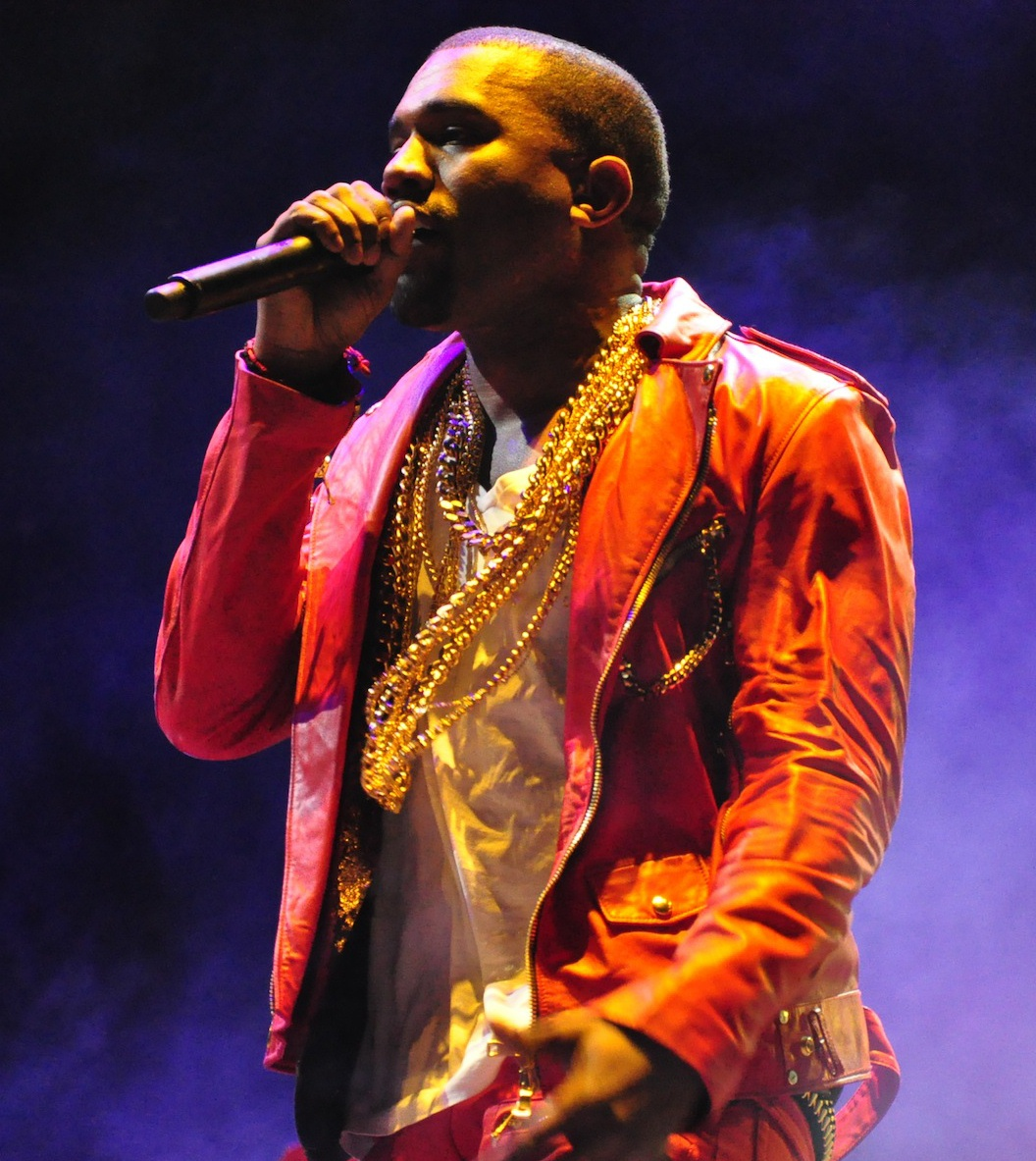 Kanye West performing at Lollapalooza Chile on April 3, 2011 in Santiago, Chile.